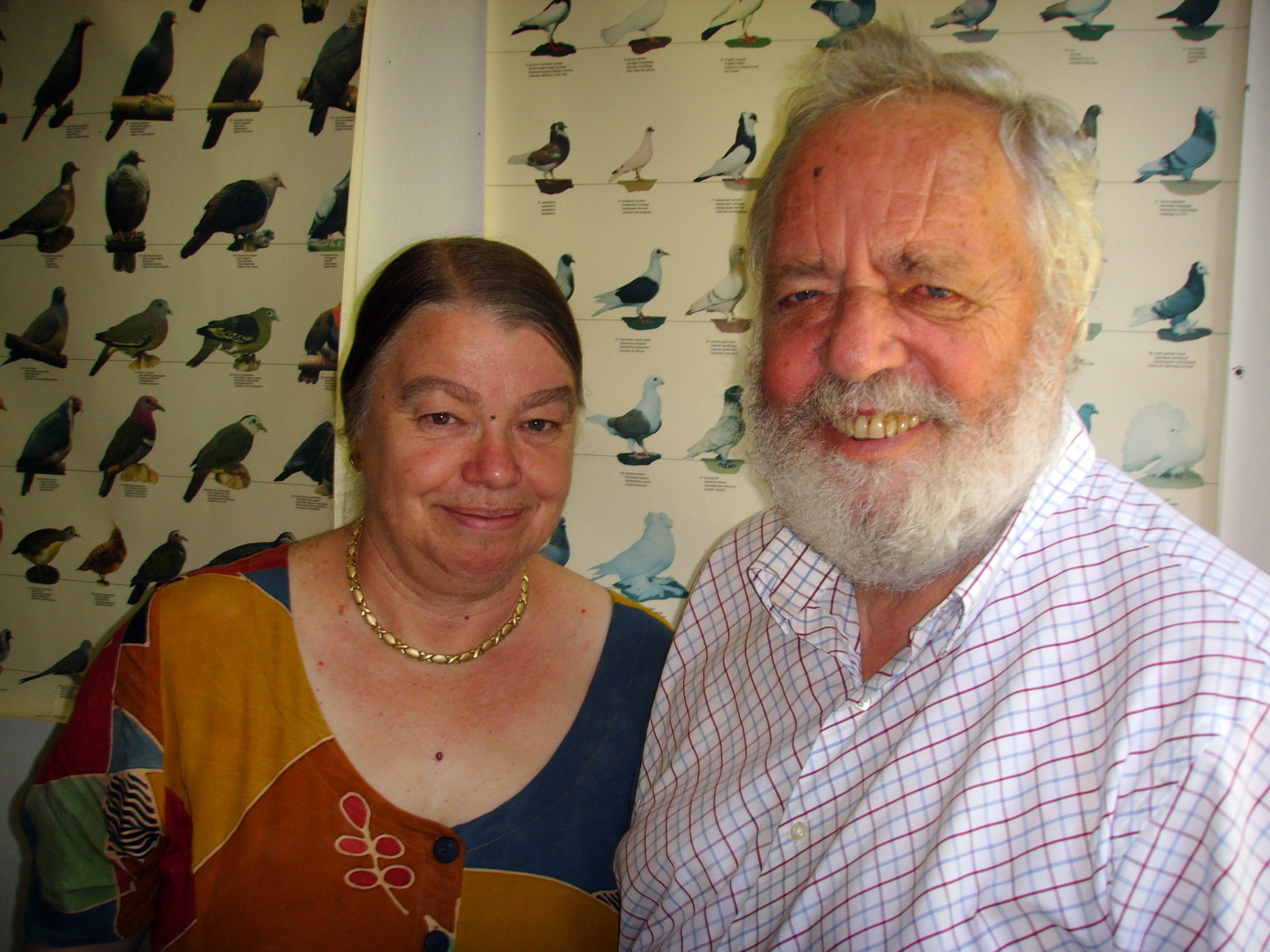 Prof. Wolfgang Wiltschko, Dr. Roswitha Wiltschko, University of Frankfurt am Main (Germany), ornithologists, leading experts on magnetic orientation in animals